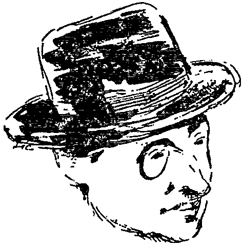 French writer Raymond de La Tailhède (1867-1938) by Frédéric-Auguste Cazals (1865-1941)